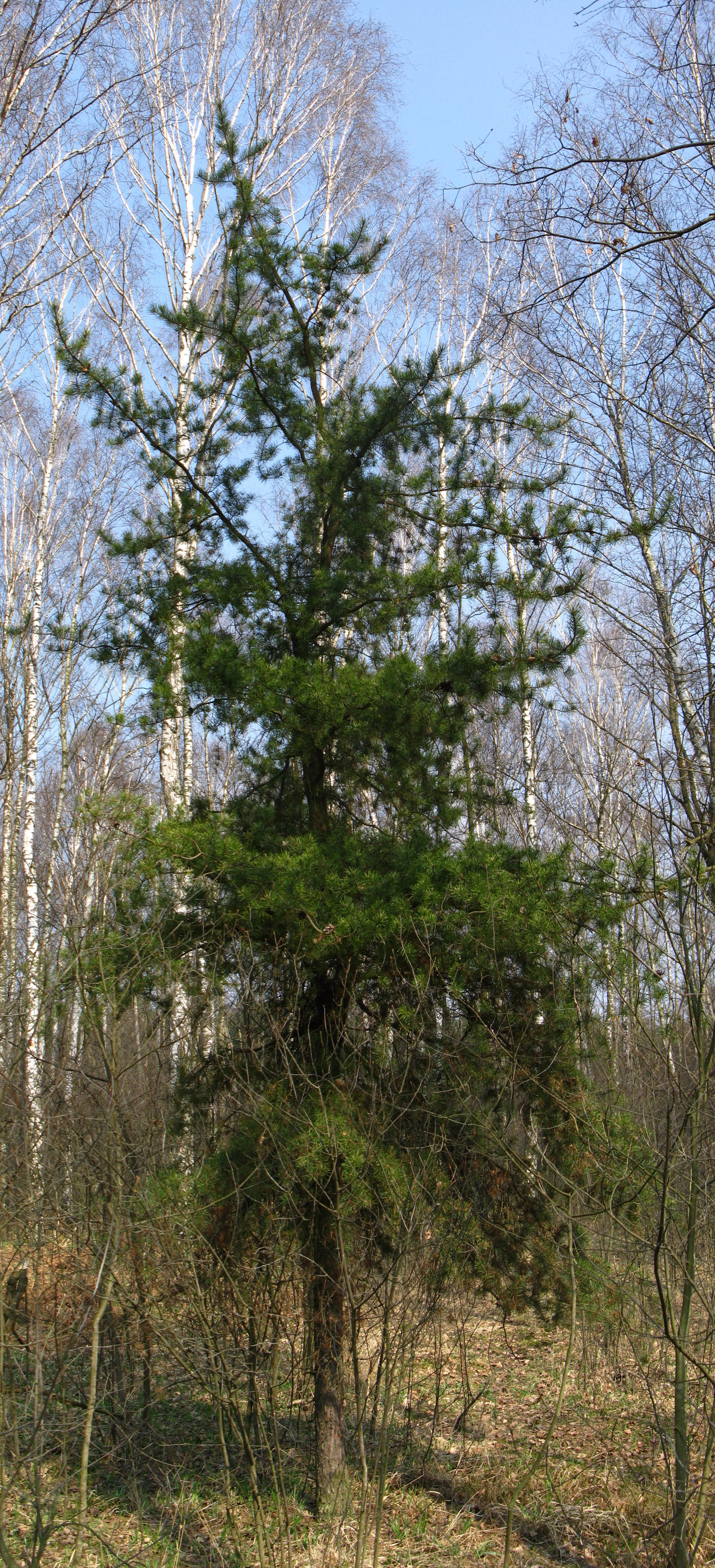 Young Pinus banksiana in Drewnica Forests, Poland